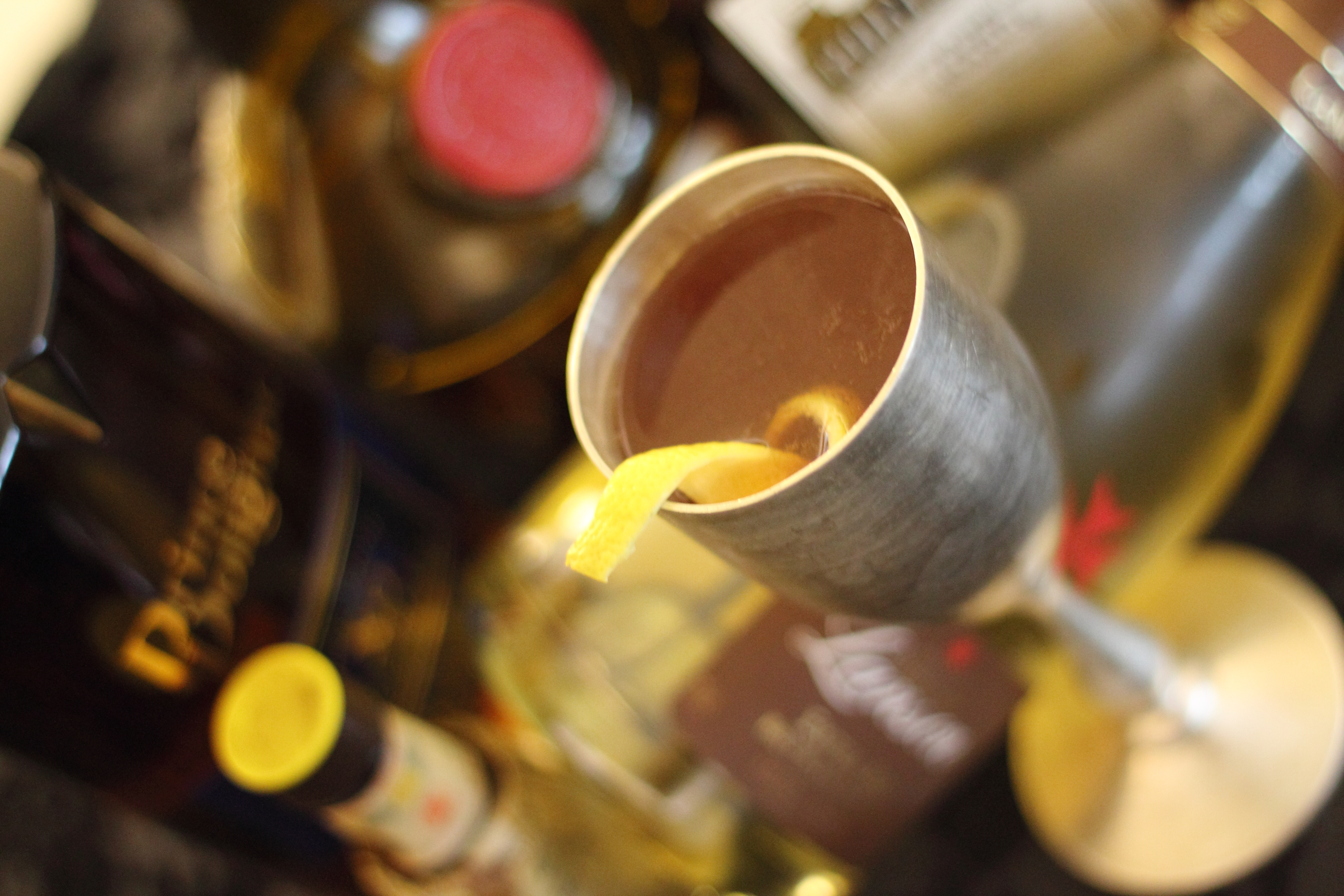 Top of a Prince of Wales cocktail in a silver cup.